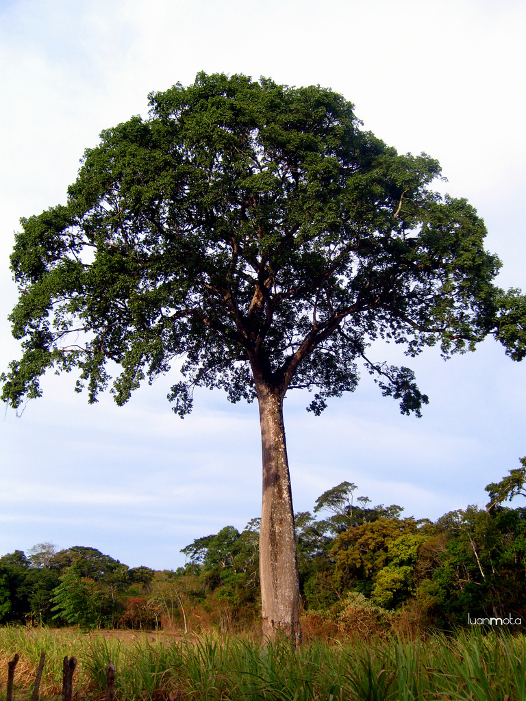 giant jatoba (Hymenaea courbaril) serra de ibiapaba - CE Brazil